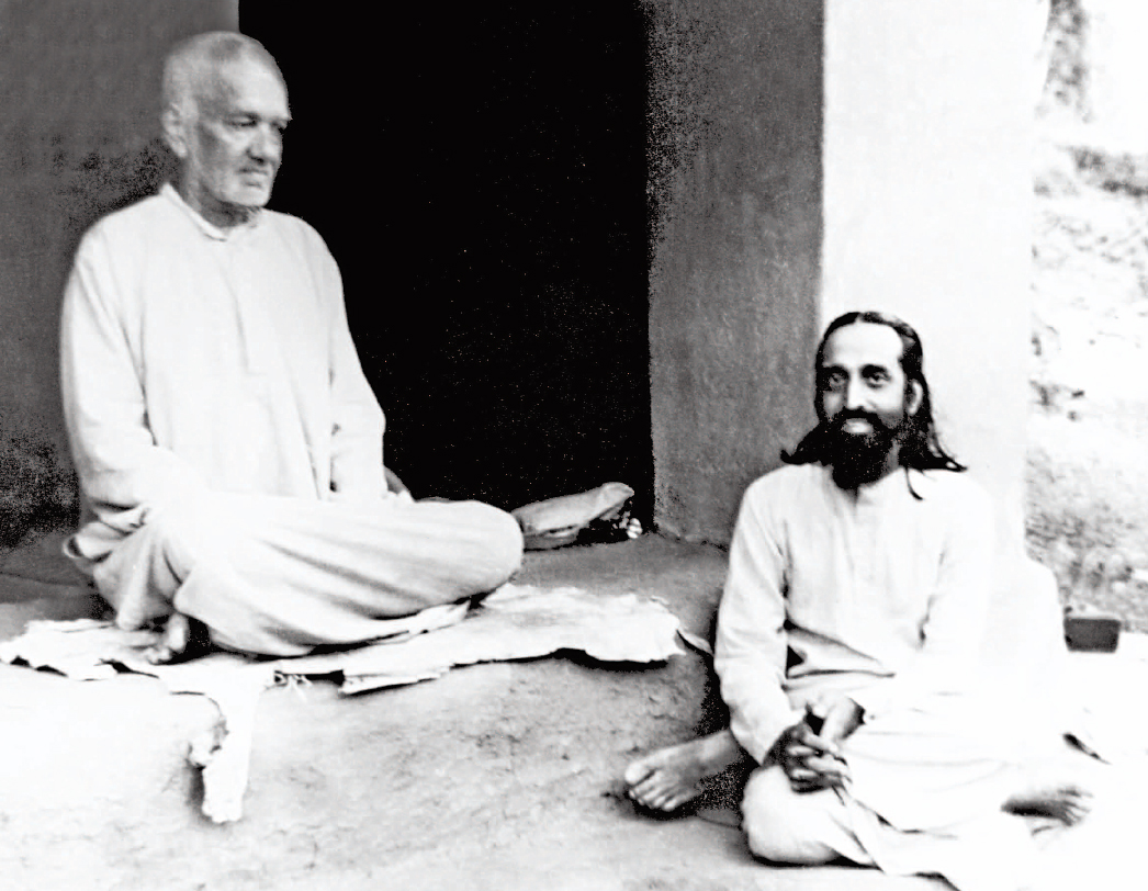 Swami Tapovanam and Swami Chinmayananda at Uttarkashi, India